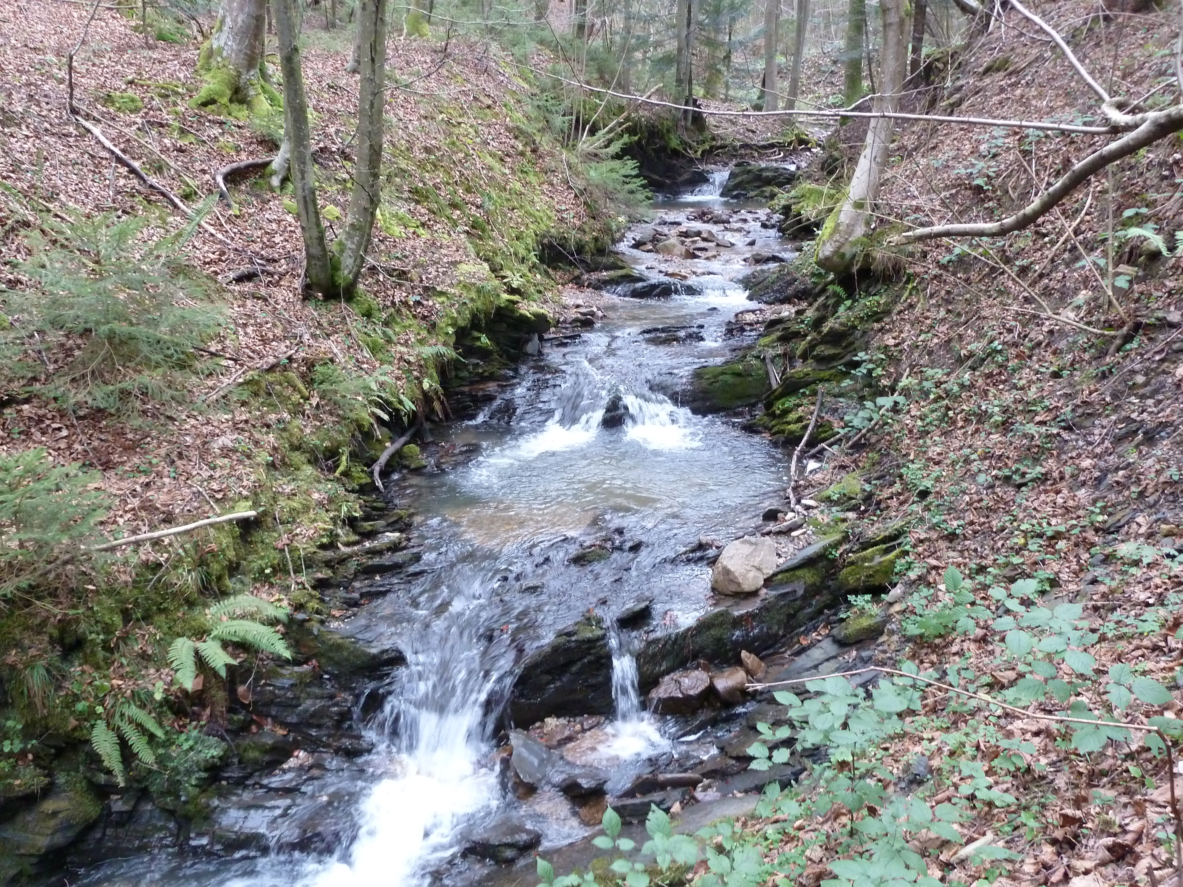 Upper course of Bolska river above the village of Trojane